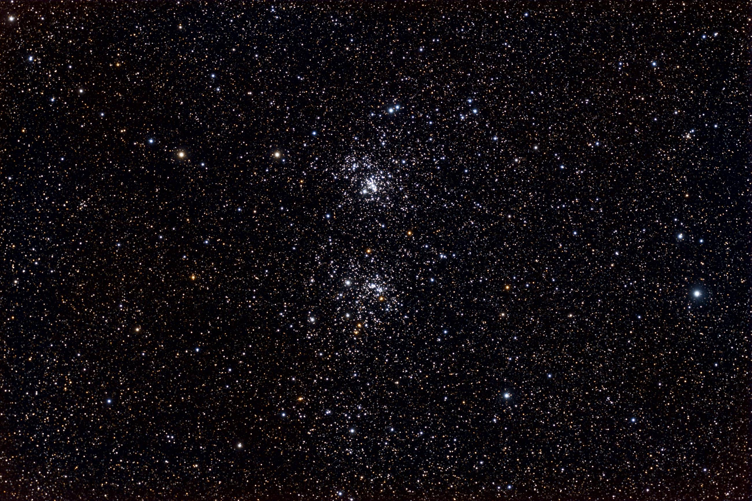 Caldwell 14 - The Double Cluster taken by /u/ItFrightensMe